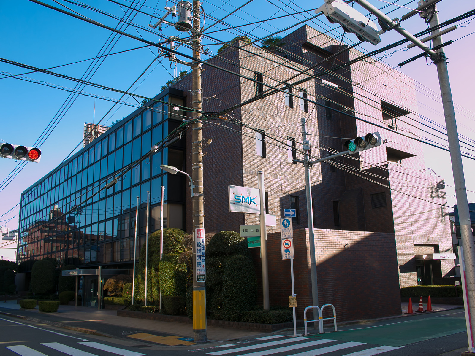 Headquarter of SMK Corporation. Shinagawa, Tokyo.